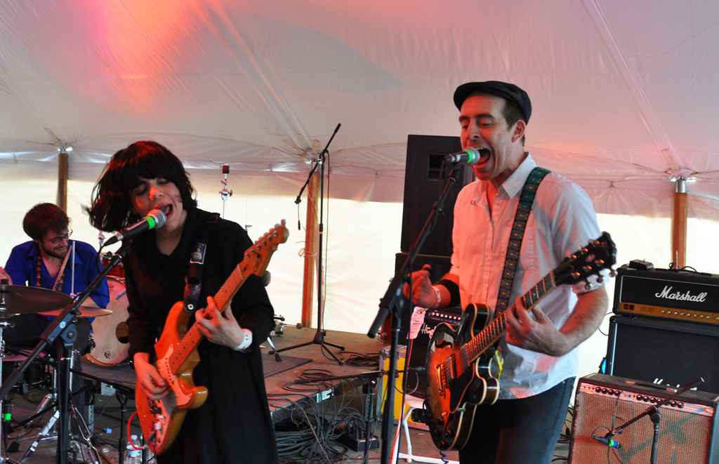 Screaming Females with Ted Leo, South by Southwest 2011, Mess with Texas SXSW Party, East Side Drive-In, Austin, Texas, March 19, 2011